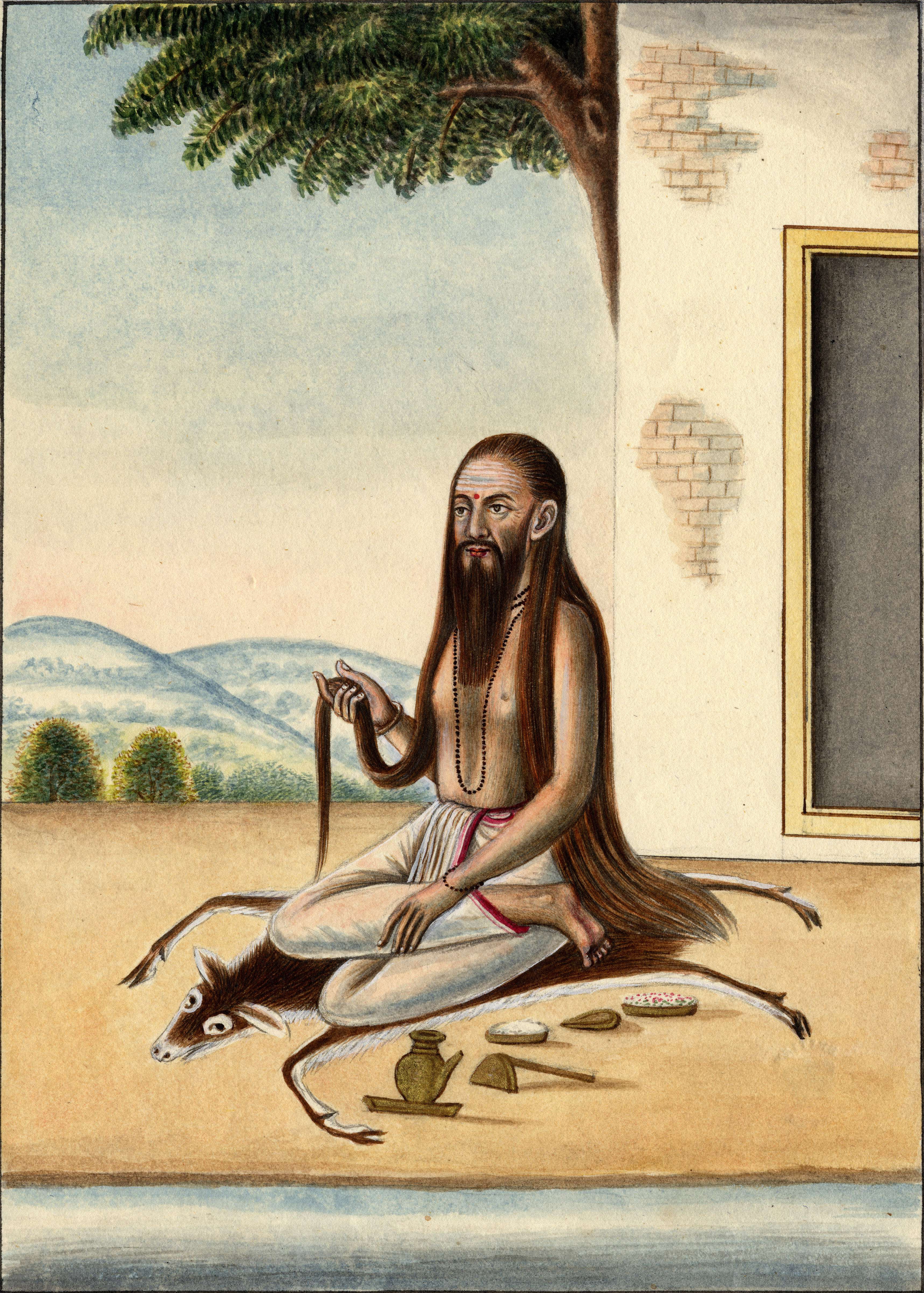 Bharadwaja, a Rishi who Rāma, Sita and Laksmana spent time with during their exile. Bharadwaja is shown seated on the ground in front of a building. A tree is shown behind the building and hills and foliage are shown in the far distance. Bharadwaja is seated on an antelope skin and on the ground around him are implements needed during his meditations. He is seated with his right leg folded over his left and his hair is loose down to the ground. He wears a white dhoti and is bare-chested except for a string of beads around his neck. He rests his left hand on his lap and holds his hair with his right hand. He has a full beard and moustache. The painting is surrounded by a black border.